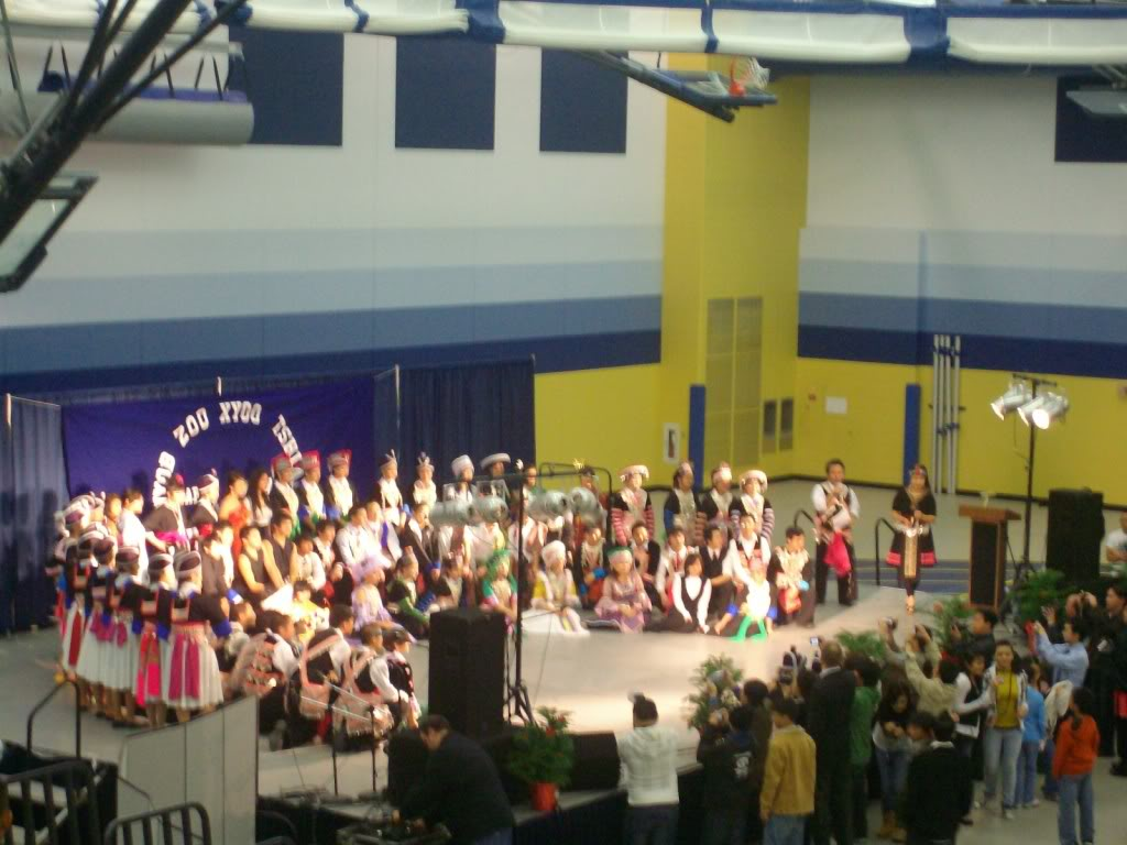 Sheboygan Hmong New Year held at Sheboygan North High School